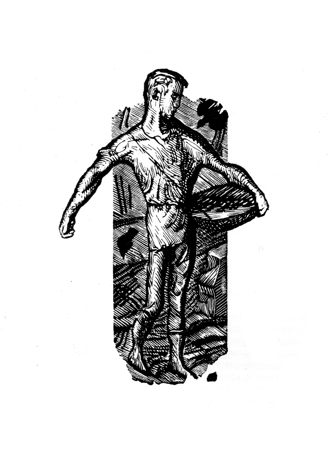 V. Favorsky. Illustration to V. Borodaevsky's verses "On a bosom of native land". 1913. Woodcut